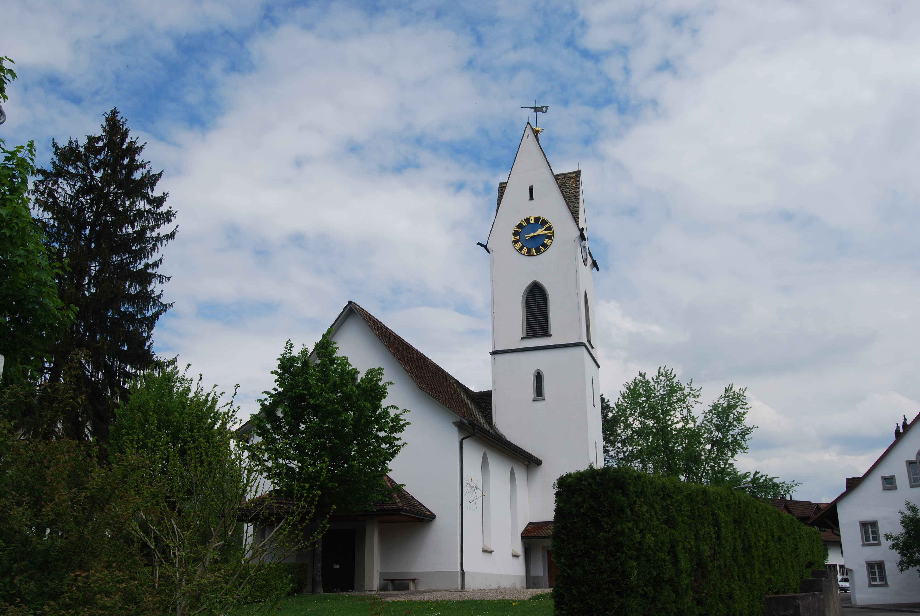 Church of Mönchaltorf, canton of Zürich, Switzerland